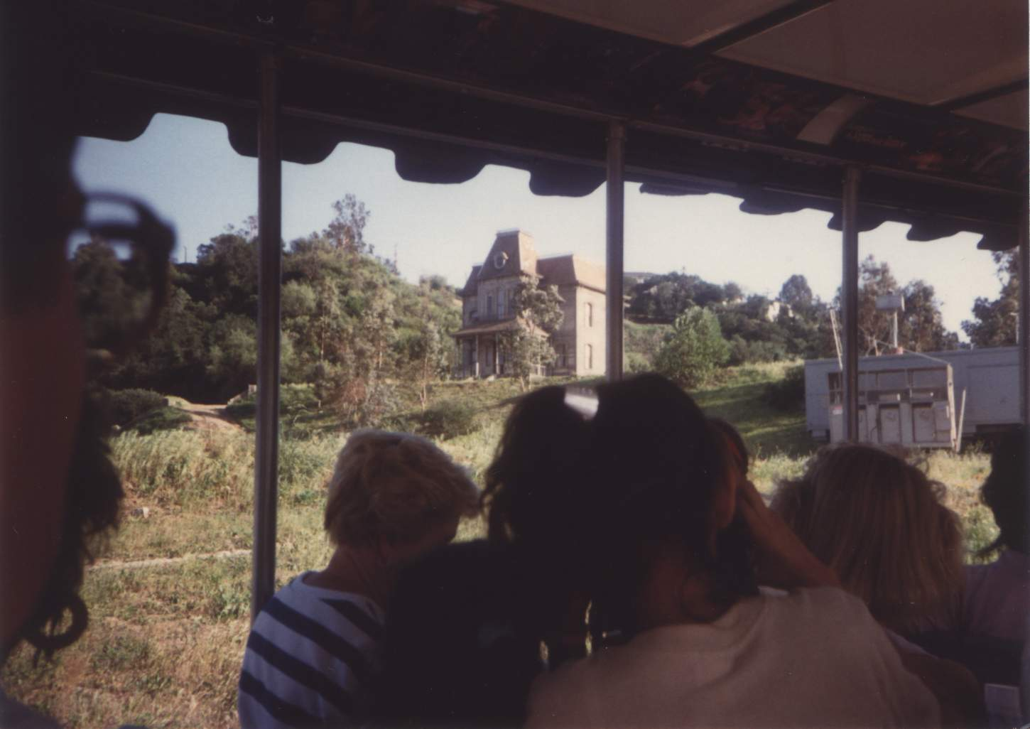 View of "Psycho" house on Universal Studios tour, from tram